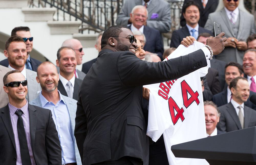 The selfie....Big Papi definitely had a better angle than me!